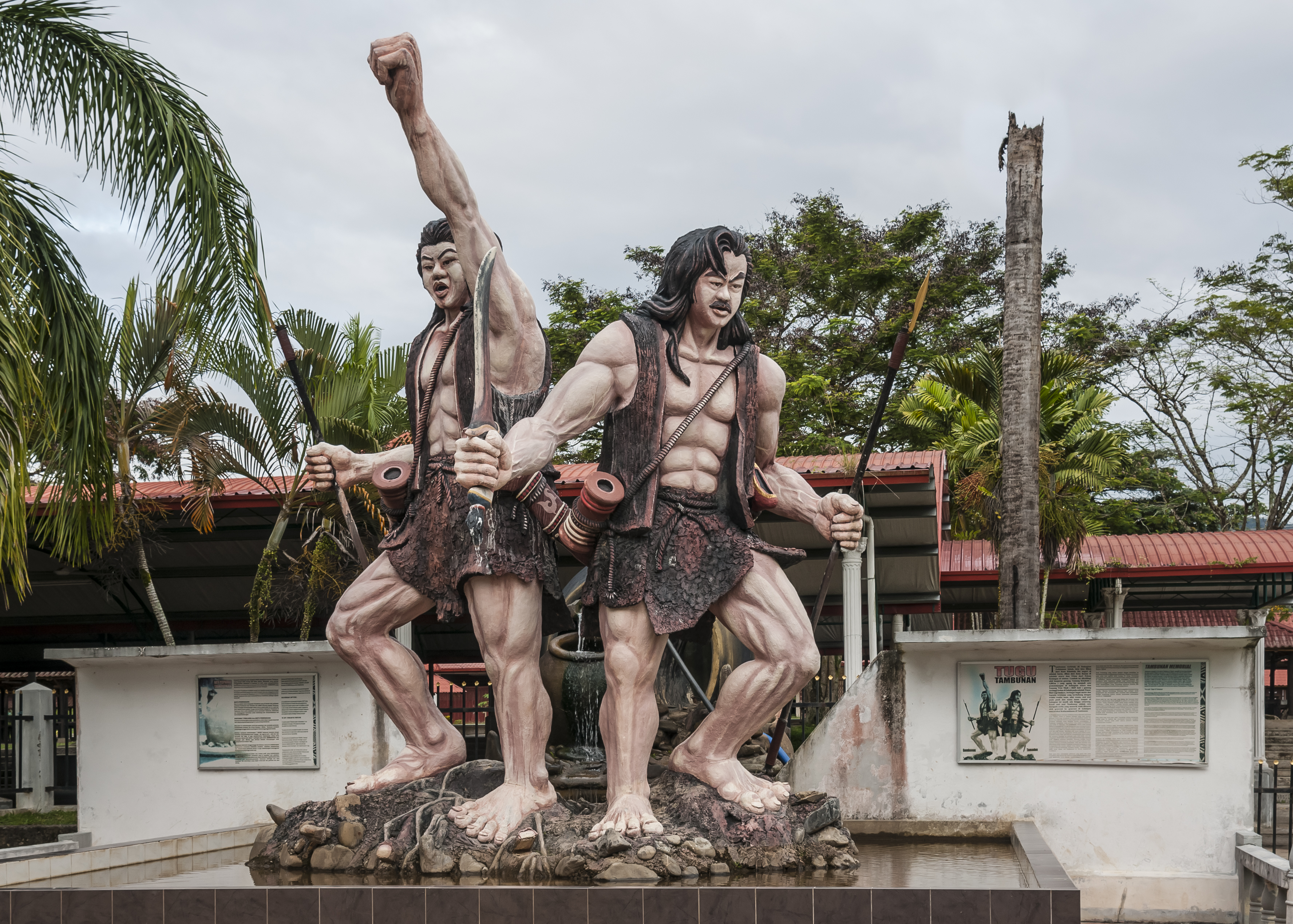 Tambunan, Sabah, Malaysia: "Tugu Tambunan" (Tambunan Memorial). The memorial depicts the victory of Gomburan and Tamadon people over the attacking tribe of Tonsudung. In the foreground the Unity Stone